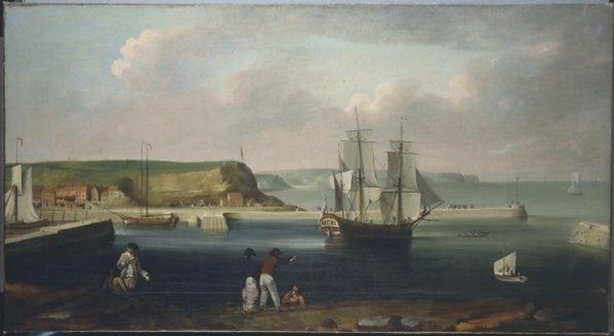 Painting of the Earl of Pembroke, later HMS Endeavour, leaving Whitby Harbour in 1768